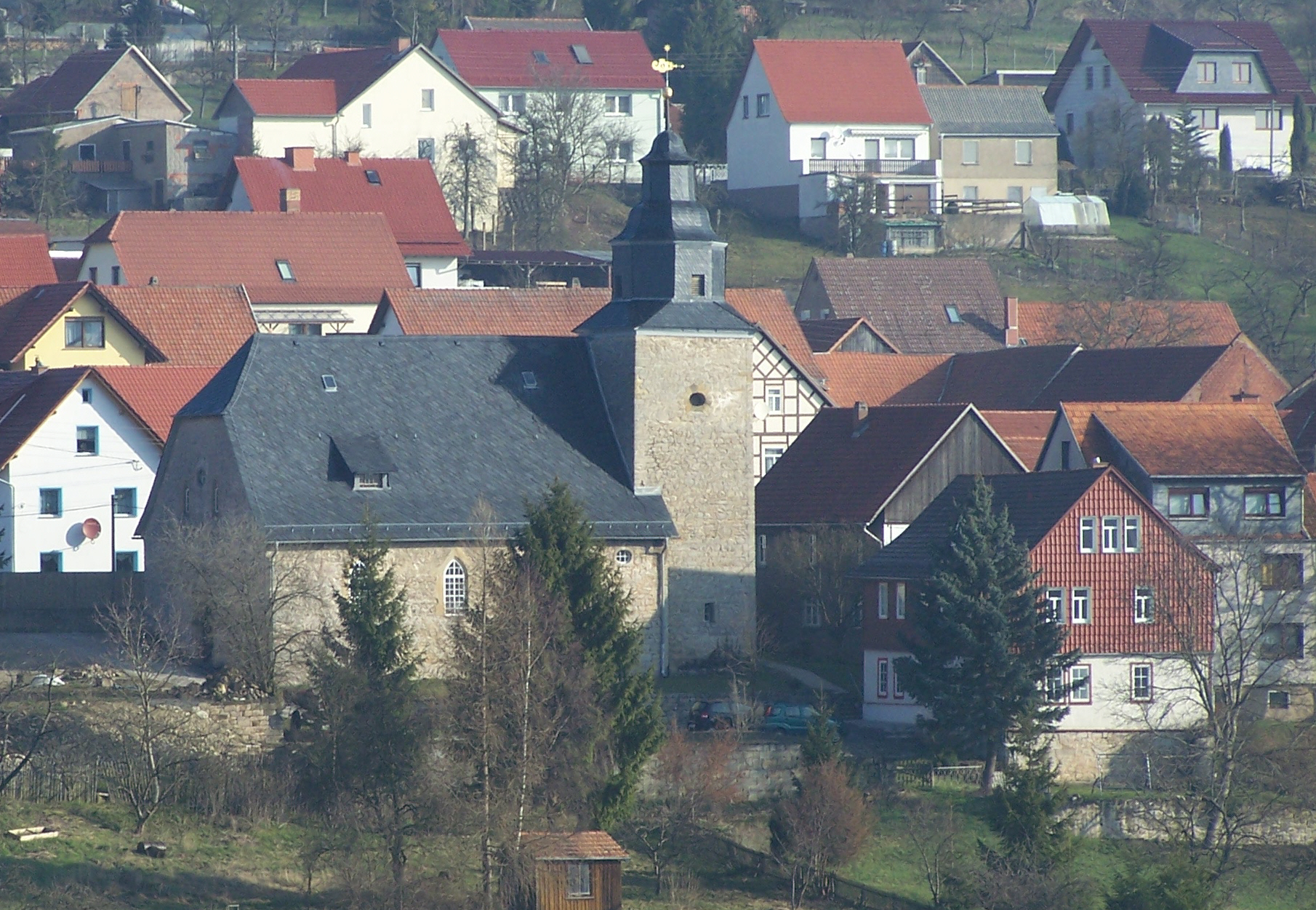 The church in Scherbda village.